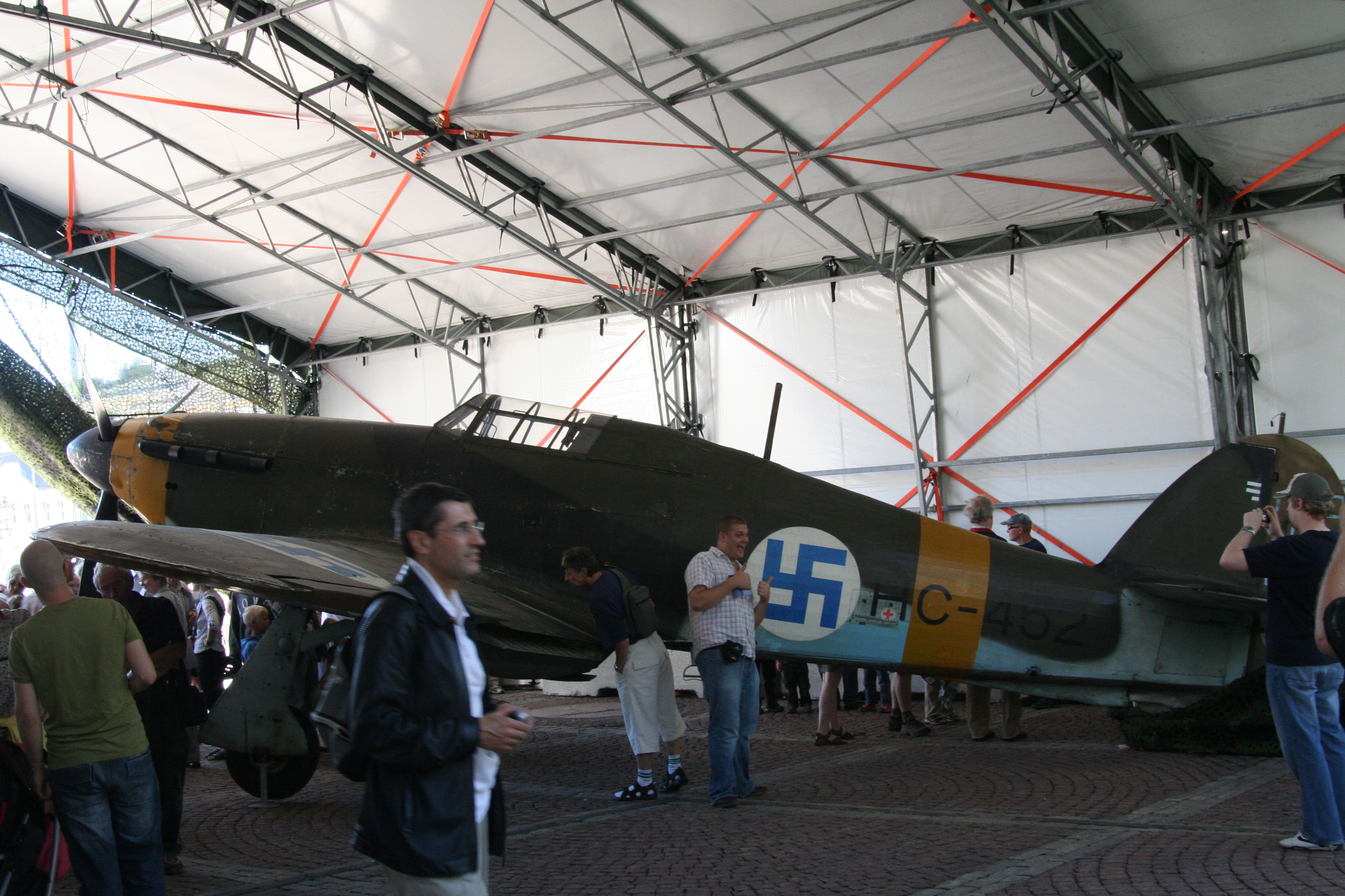 A Finnish airforce Hawker Hurricane of LeLv26 (No.26 fdighter squadron)